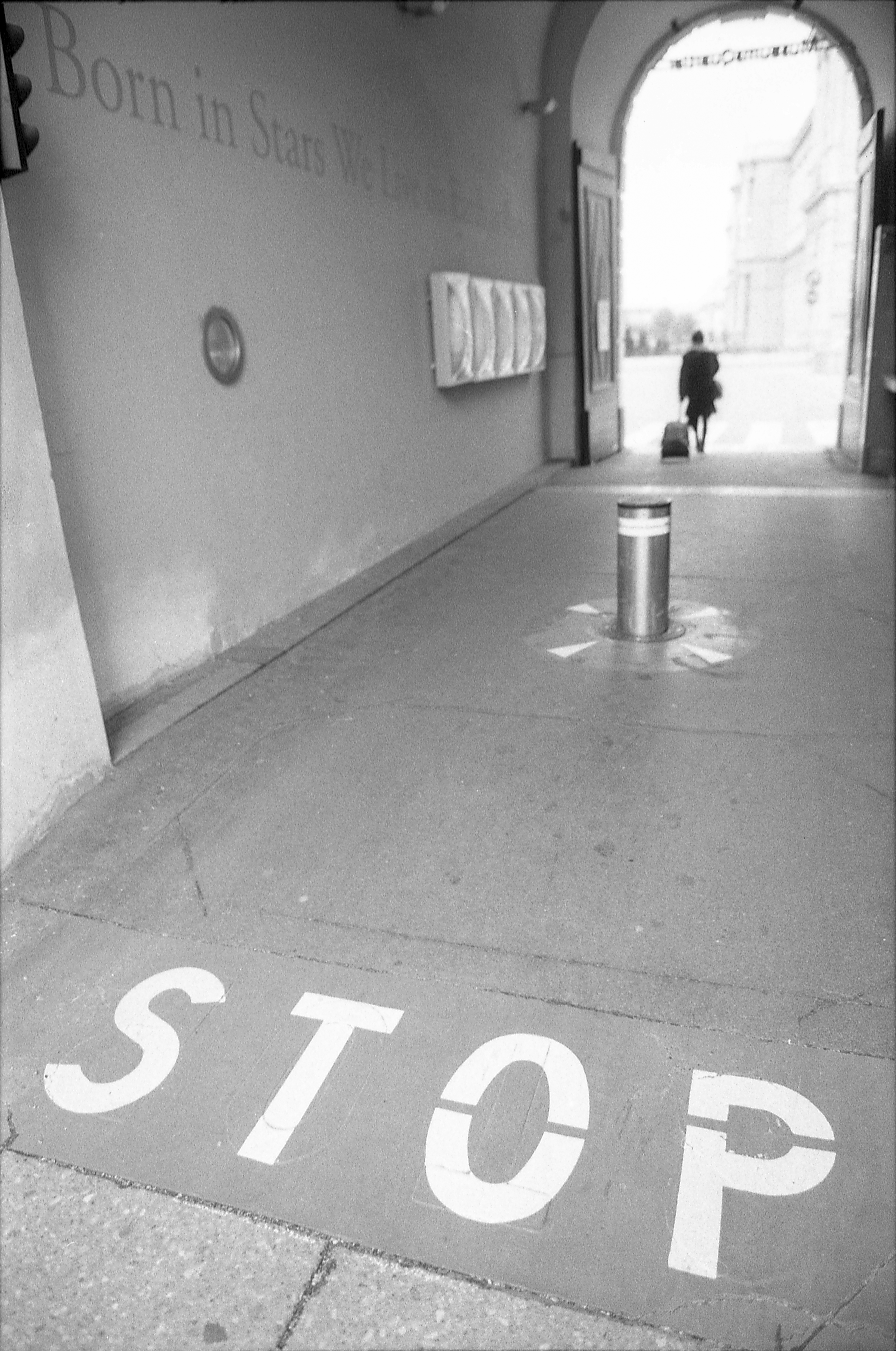 Entrance to Museumsquartier Vienna, monochrome shooting The image is original without electronic editing and trimming the negative. The converging lines are intentional, the subject is no other way. Upper limit is very nearly the top of the gate, on the right edge of the target. The publication "STOP", the bollard and the person form a diagonal line, I have waited for this moment. Without the person would only be a white hole the target. The atrium is typical of the dynamic range in black and white, but nowhere 100% white. The clear film grain based on 4800 dpi at Negaticscan.